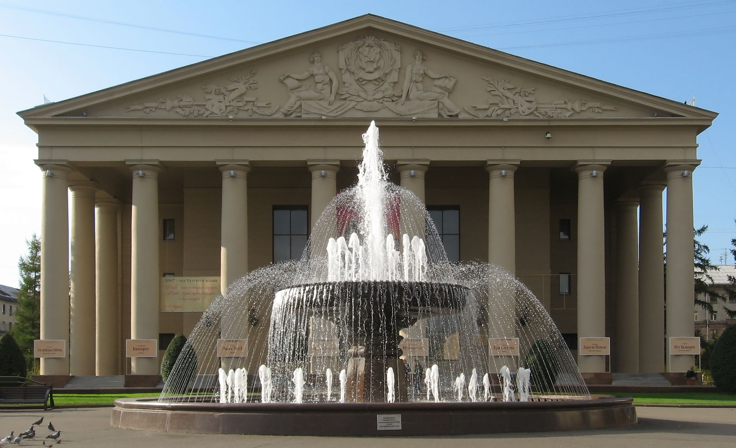 The Kemerovo Drama Theatre.